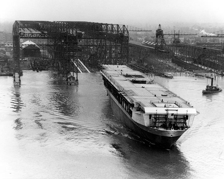 Launch of the U.S. Navy aircraft carrier USS Ranger (CV-4) at the Newport News Shipbuilding & Drydock Company, Virginia (USA), on 25 February 1933.